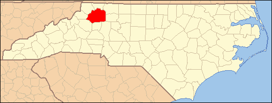 Locator Map of Wilkes County, North Carolina, United States